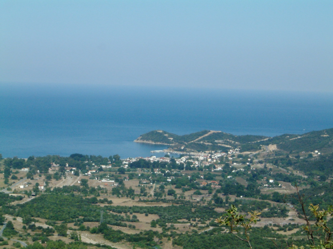 Village of Olymbiada, Chalkidiki, Greece. View from the northwest including site of ancient Stageira.